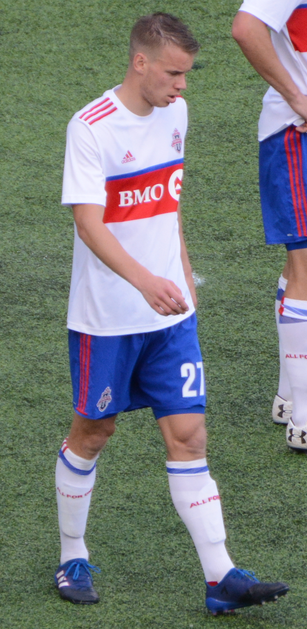 Danni König, Øyvind Alseth Taken during a match between FC Cincinnati and Toronto FC II at Nippert Stadium in Cincinnati, USA on May 27, 2017.